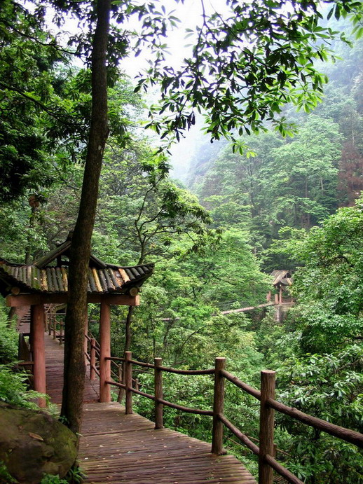 A wooden overpass of the Crystal Stream on the western slopes of Emei Shan.